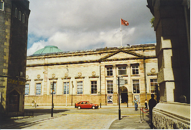 Aberdeen Art Gallery. One of Aberdeen's many distinctive granite buildings. This neo-classical style building on Schoolhill has different colours of granite and adjoins the Cowdray Hall (to left).